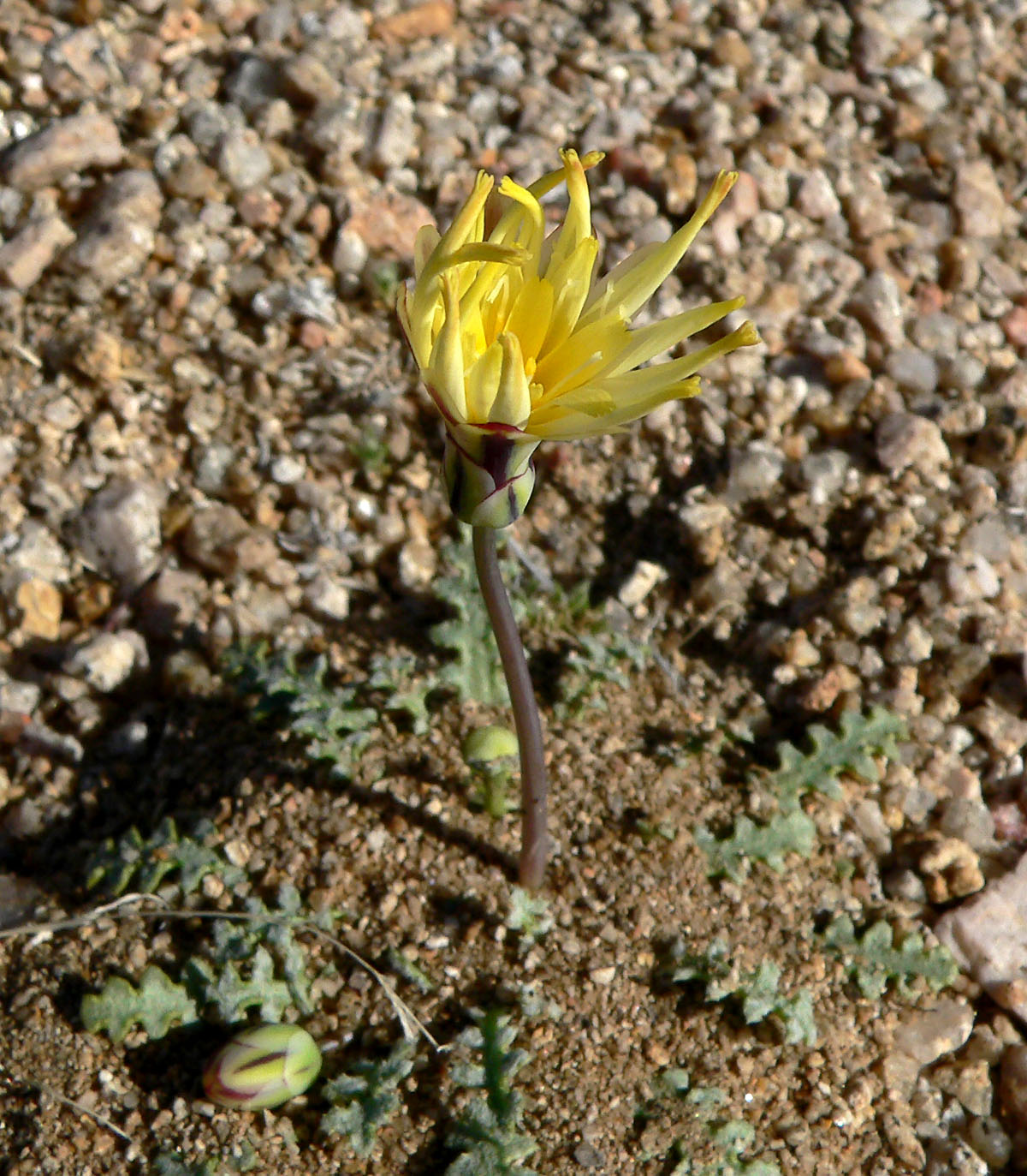 Anisocoma acaulis on Cima Dome near Teutonia Peak, Mojave National Preserve, California